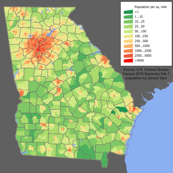 Category:U.S._State_Population_Maps Category:Georgia (U.S._state) maps Georgia population density map based on Census 2010 data. See the data lineage for the process description.